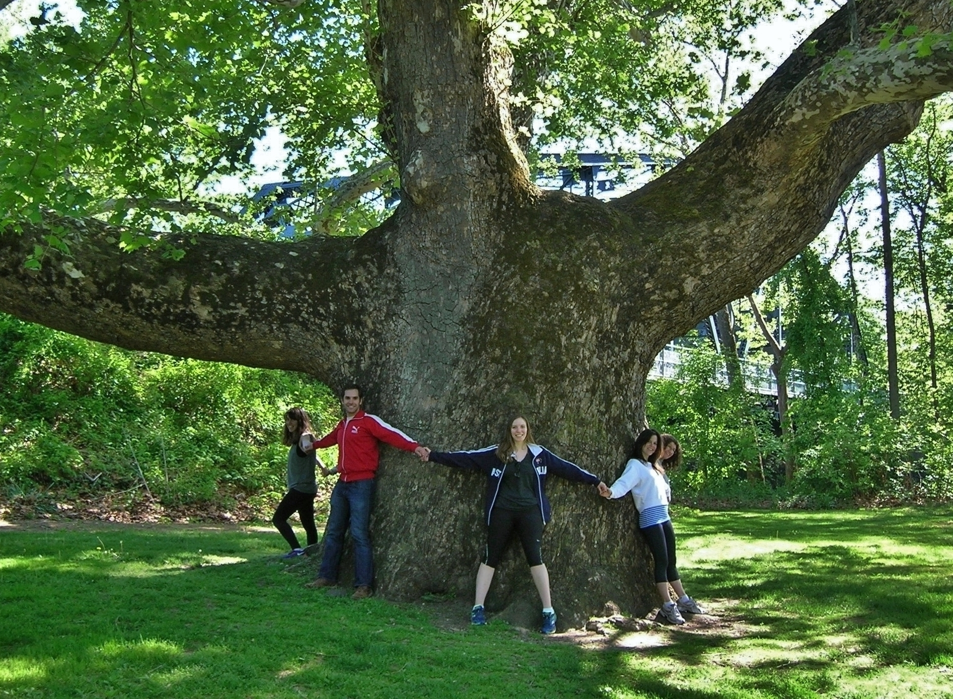 Photograph of a notable sycamore tree located in Simsbury, CT.